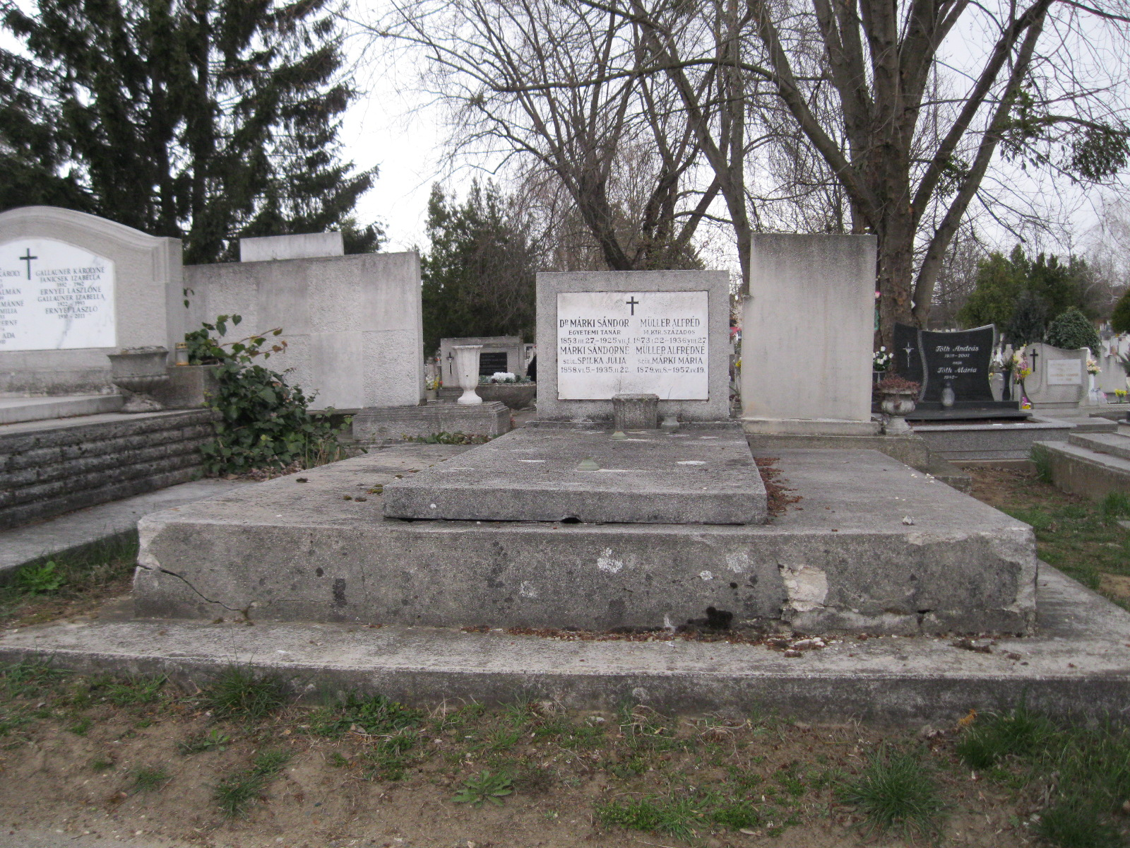 Sándor Márki tomb in Gödöllő Urban Cemetery.